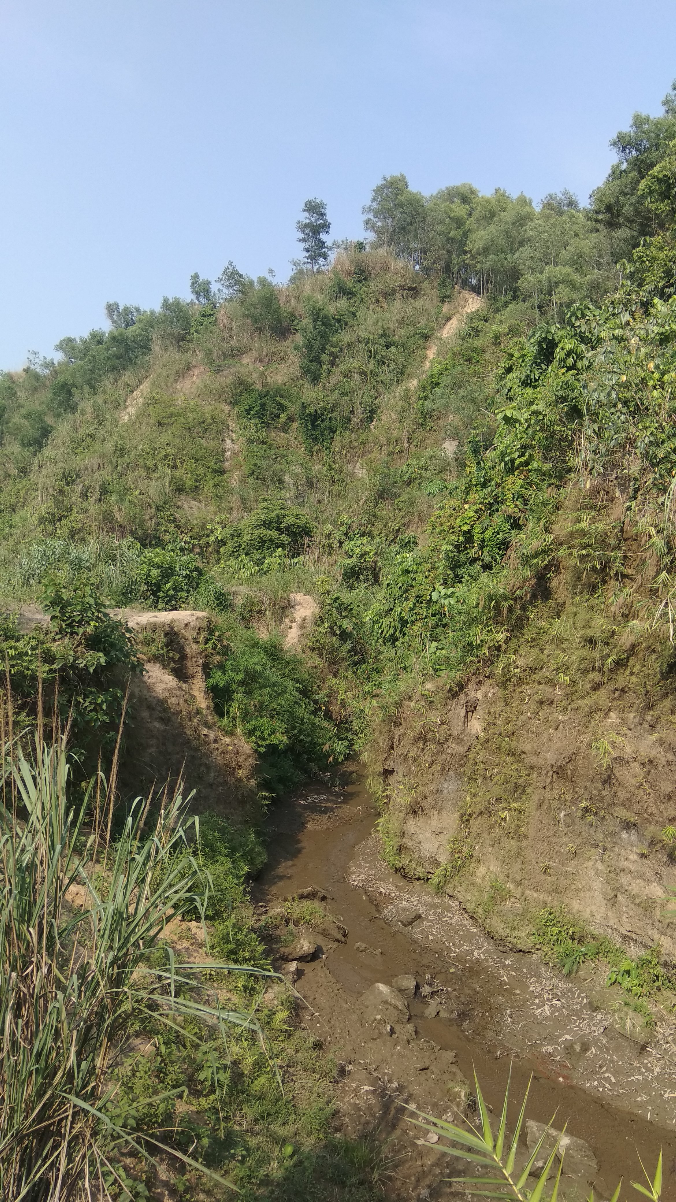 It is an image of spring inside cox's campus of CVASU.